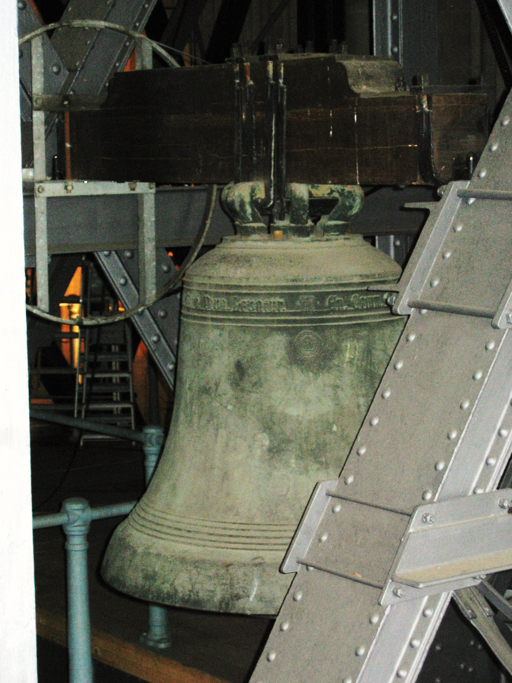 Cologne Cathedral, Aveglocke